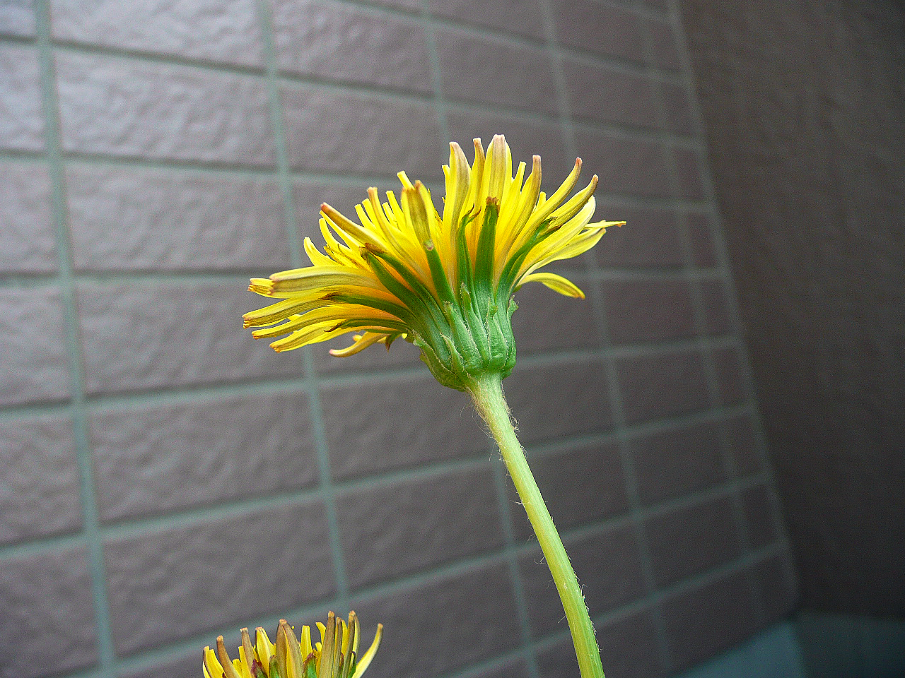 Taraxacum japonicum Koidz.(a kind of Japanese dandelions) Japanese name is "kansai tanpopo".("Tanpopo" means dandelion)